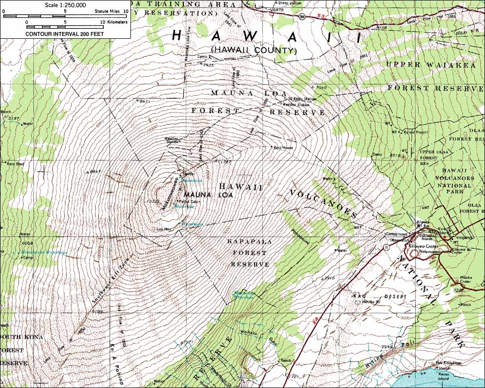 Topographic map of Mauna Loa (1:250,000 scale)